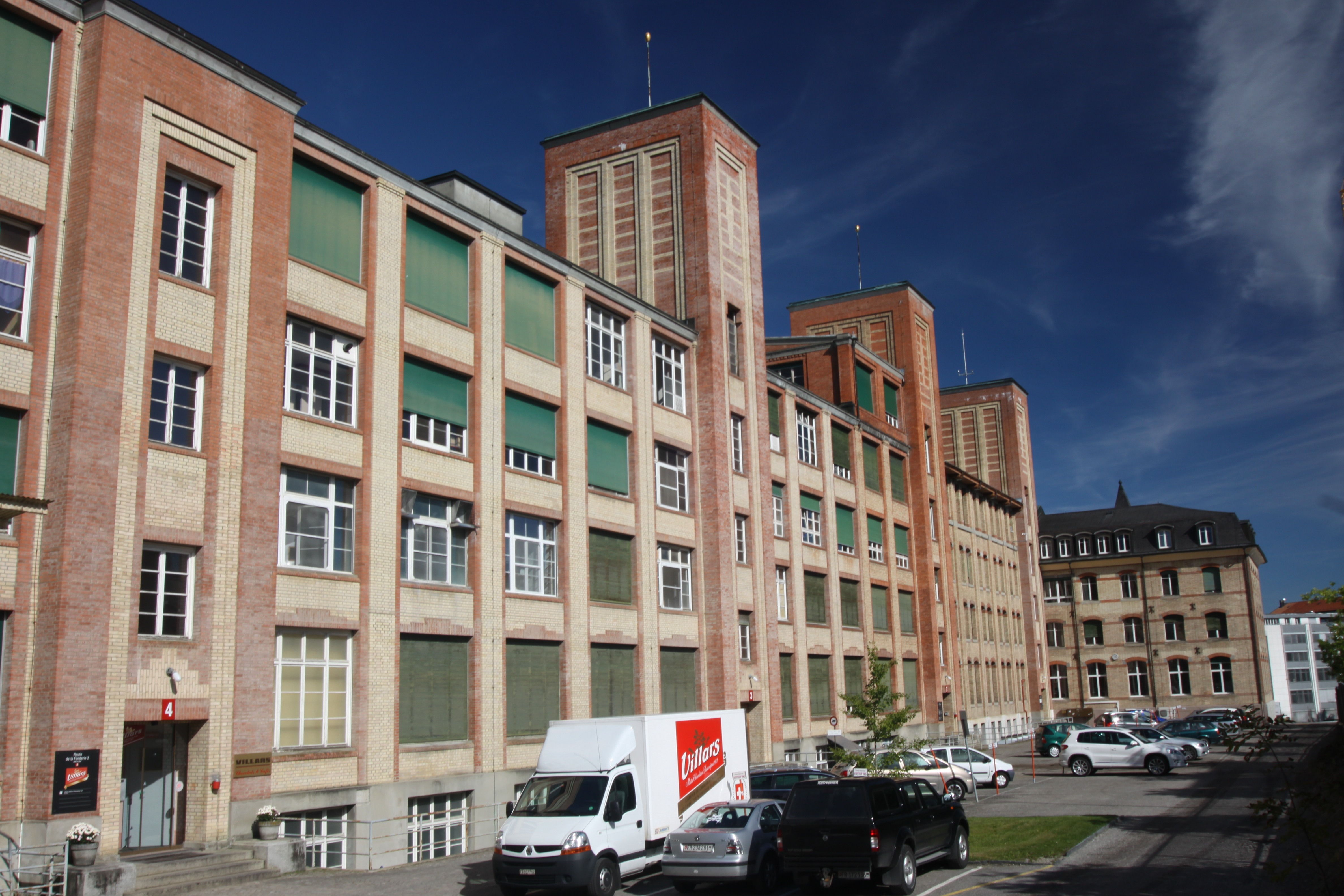 Factory Complex of Villars Maître Chocolatier S.A., Route de la Fonderie 2-6, Fribourg